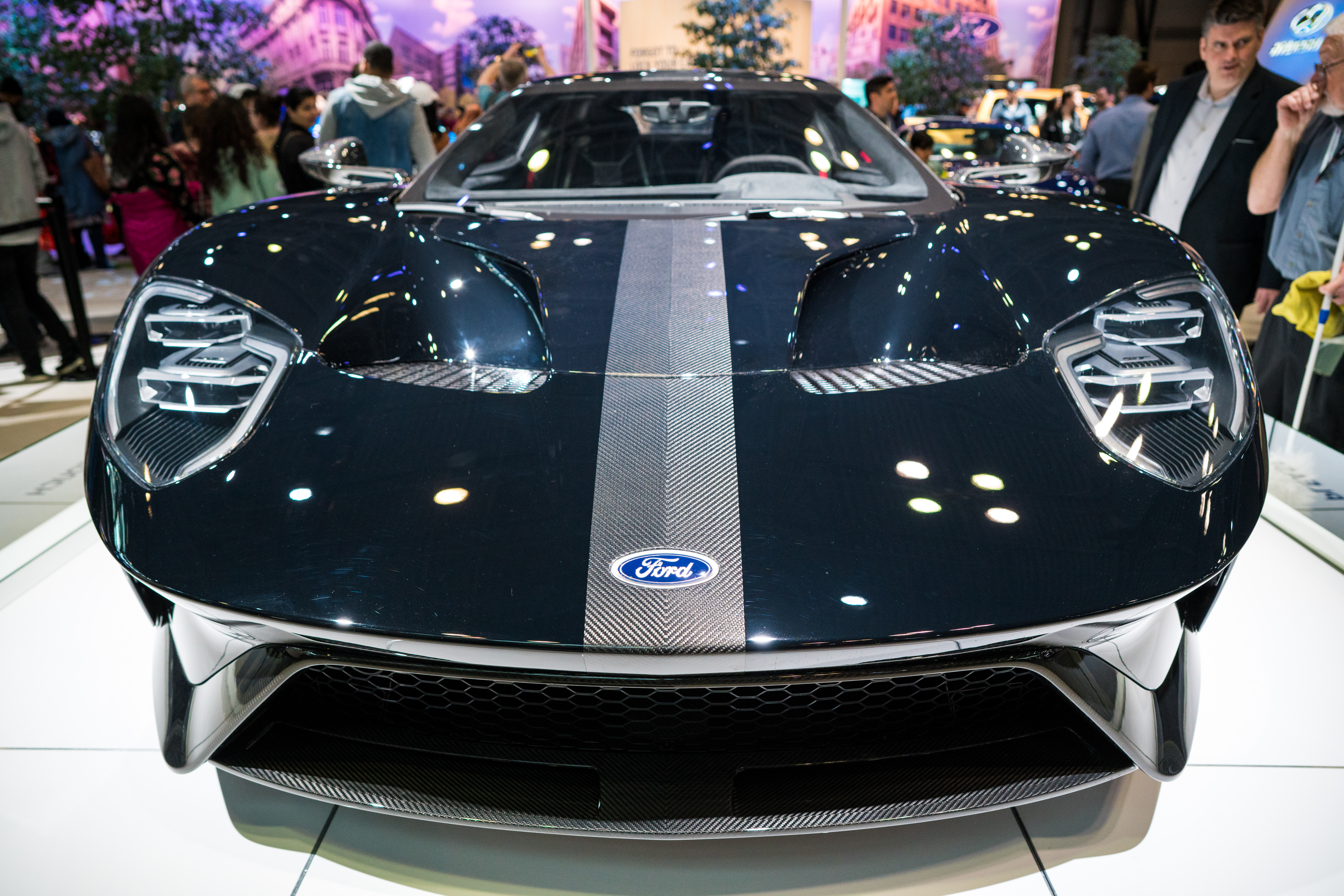 Ford GT at the New York International Auto Show NYIAS